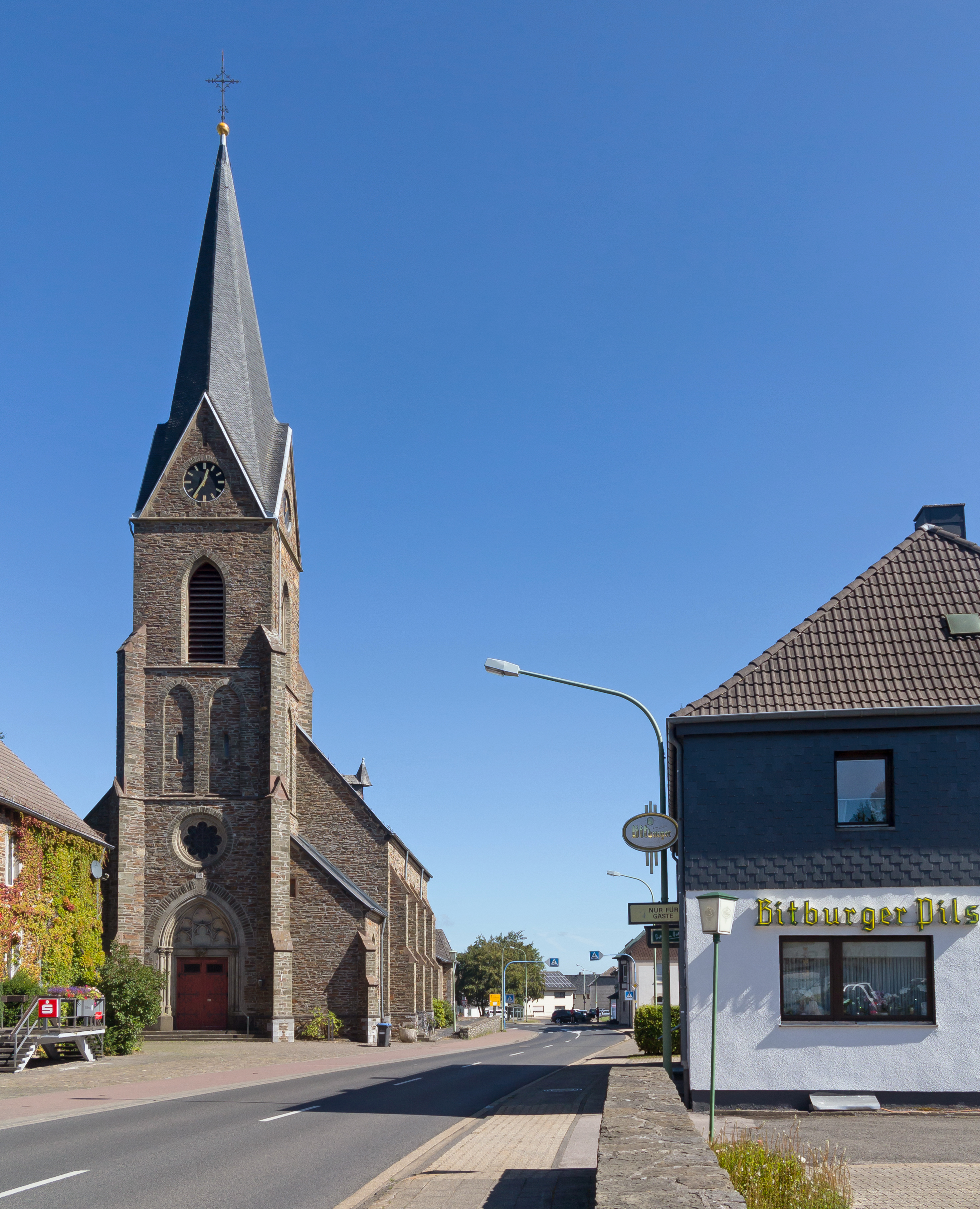 Lammersdorf, the Catholic parish church, street viewThis is a photograph of an architectural monument., no. 128